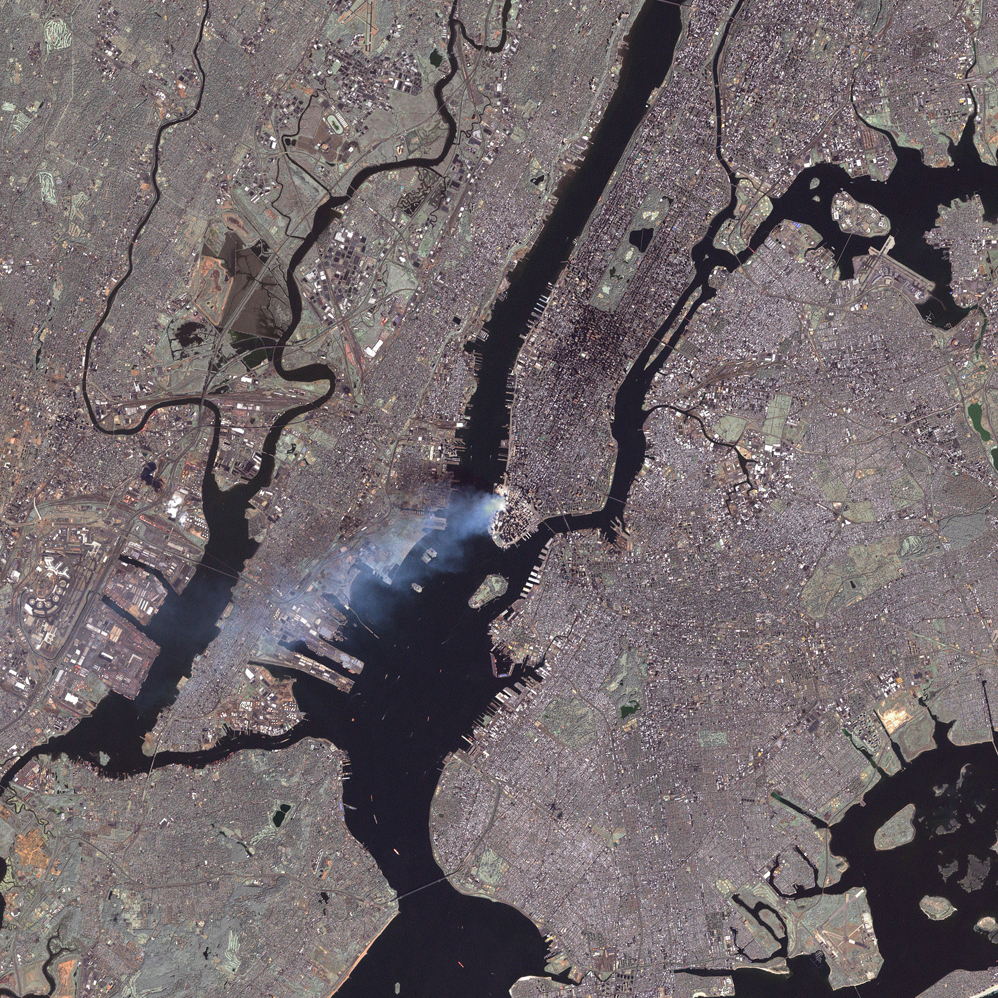 Plume of September 11 attack seen from space by nasa